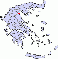 locator map, based on Image:Prefectures Greece grey.png